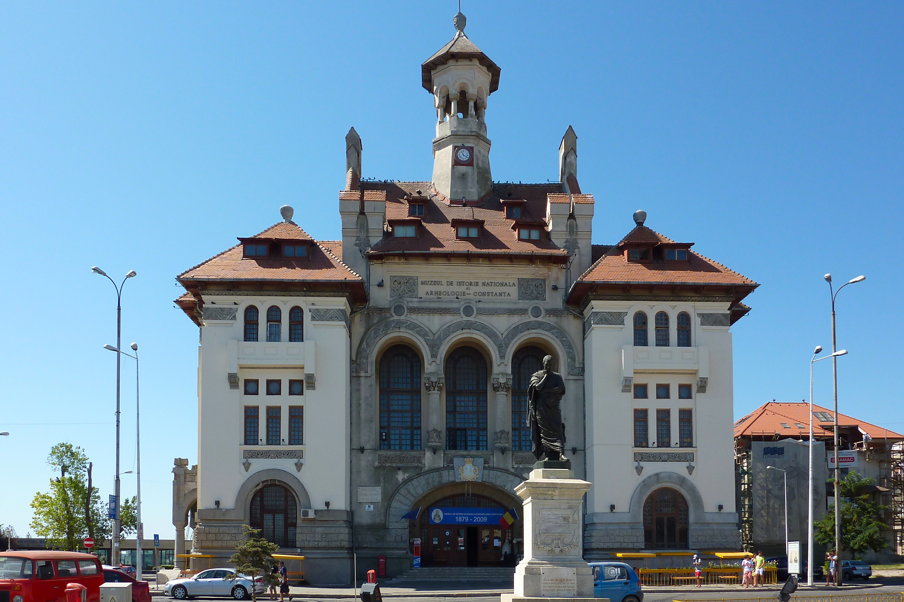 The statue of Ovid in front of the National History Museum in Constantza, Romania.